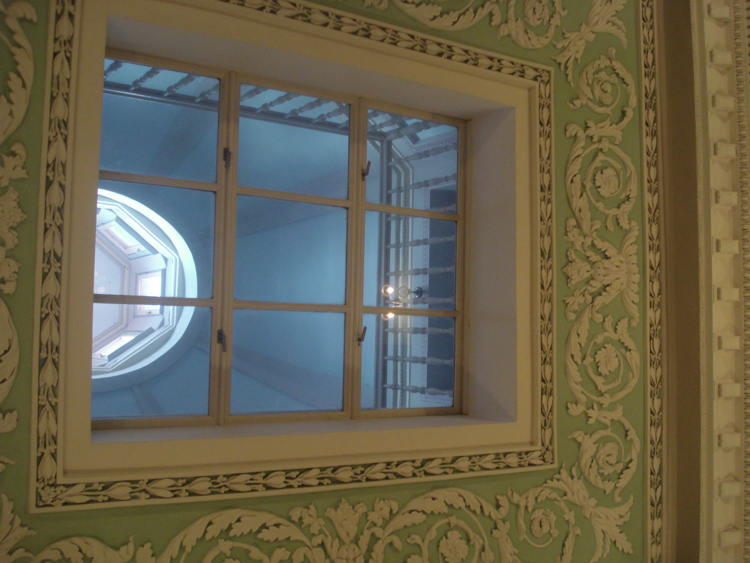 Apartment of architectMichael Schulz on the third floor of the north building of the M.K.Sarbievius Courtyard in Vilnius